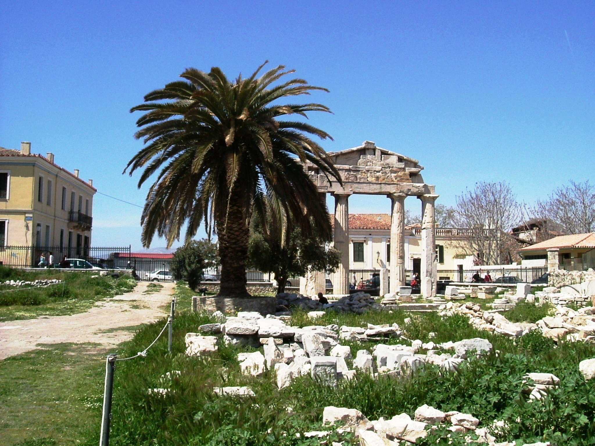 Roman Agora site in Athens, Greece